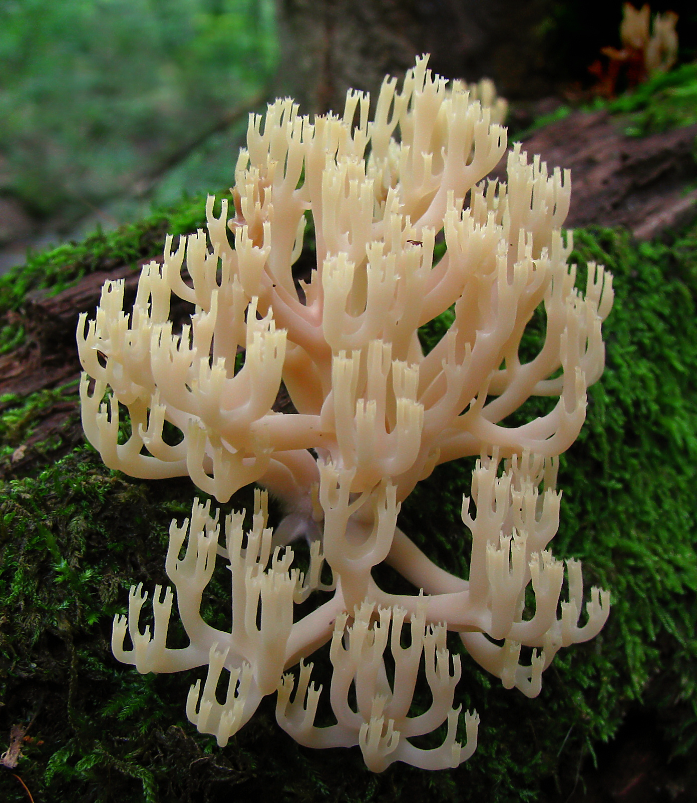 Artomyces pyxidatus (Pers.) Jülich Location: High Bottom Farm, Athens County, Ohio, USA. Observation Notes: Growing from a rotting hardwood log. For more information about this, see the observation page at Mushroom Observer.